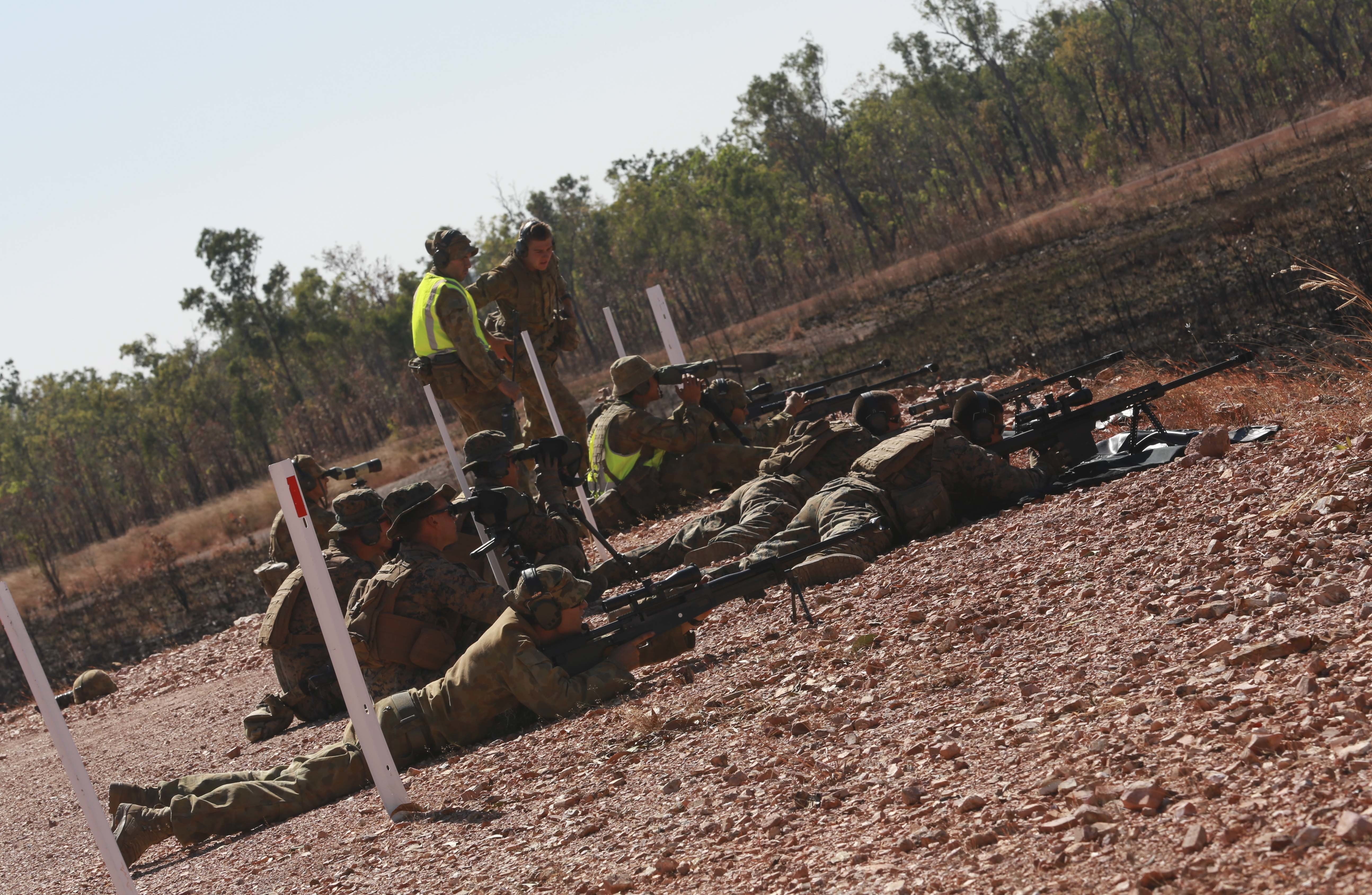 U.S. Marines with Weapons Company, 1st Battalion, 4th Marine Regiment, Marine Rotational Force – Darwin, train alongside soldiers with the Australian Army, Australian Defence Force, on a sniper range during Exercise Predator Walk May 24 at Mount Bundey Training Area, Northern Territory, Australia. The Marines have been participating in bilateral training with the Australian soldiers, including dry and live-fire exercises with air and ground elements. This deployment demonstrates the interoperability and combined capability of a Marine Air Ground Task Force with Australian allies. (U.S. Marine Corps photo by Lance Cpl. Kathryn Howard/Released)